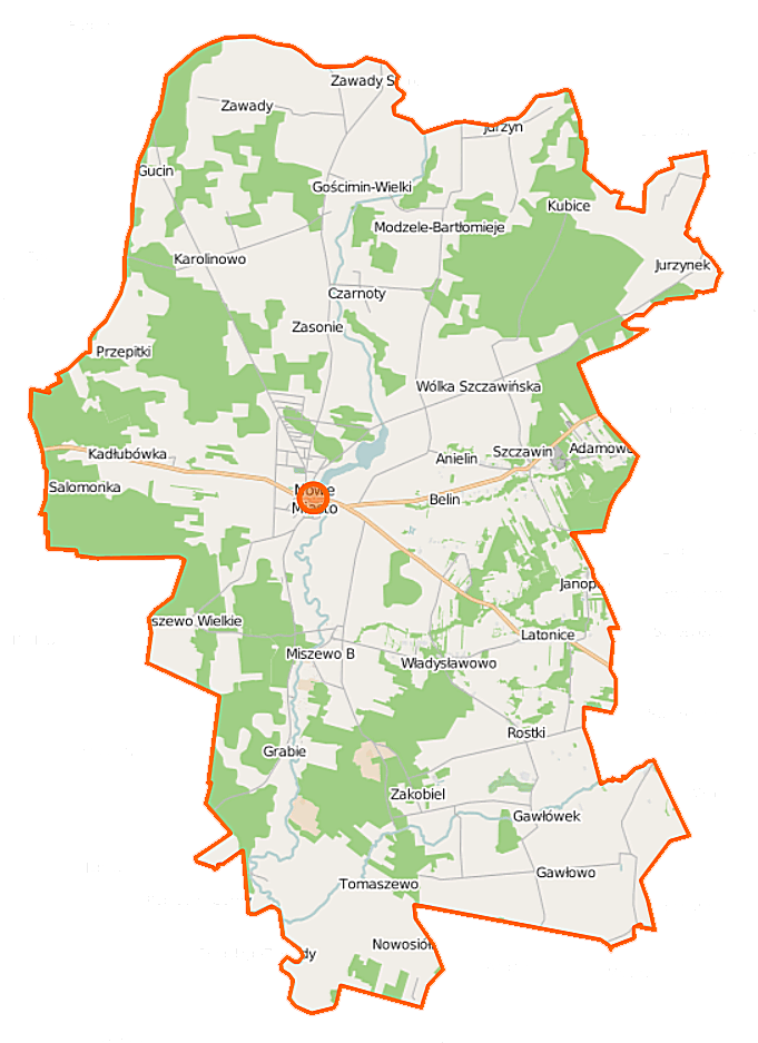 Map of Gmina Nowe Miasto, Poland This map of Nowe Miasto (gmina) was created from OpenStreetMap project data, collected by the community. This map may be incomplete, and may contain errors. Don't rely solely on it for navigation. Border coordinates52.730520.5534←↕→20.740152.5747